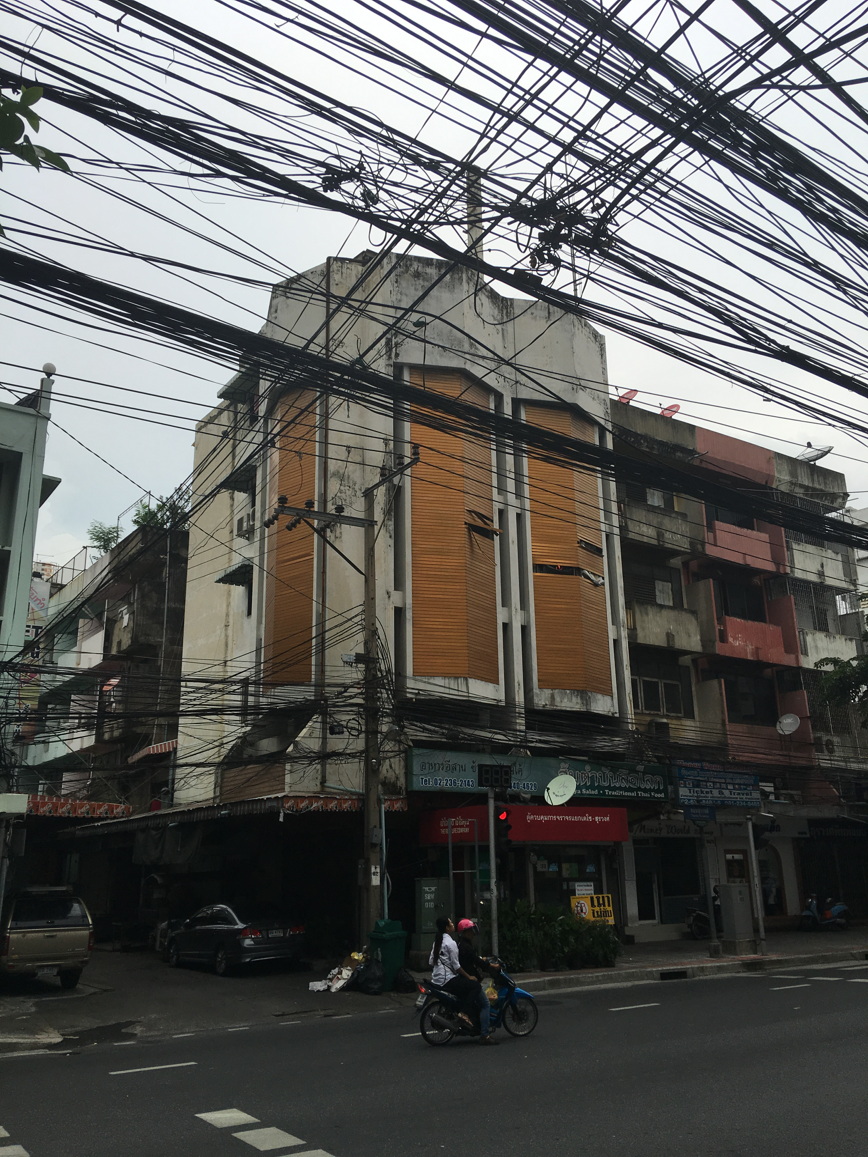 Free-air broadband cables above a street in Si Phraya (Bang Rak), southern Bangkok, Thailand